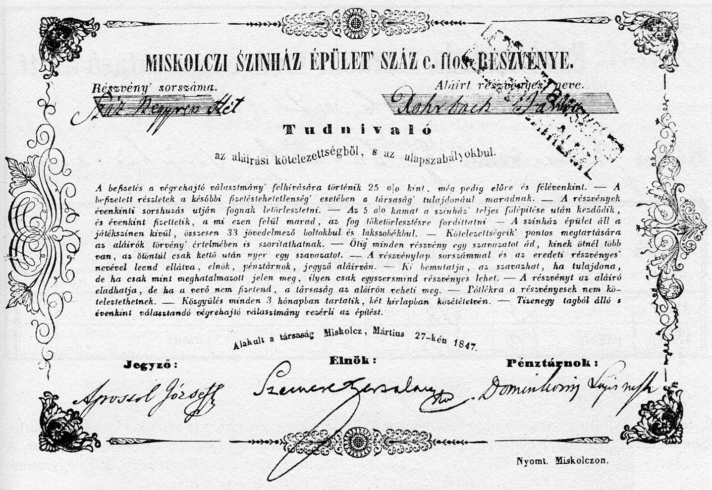 Share for National Theatre of Miskolc from 1847, Hungary